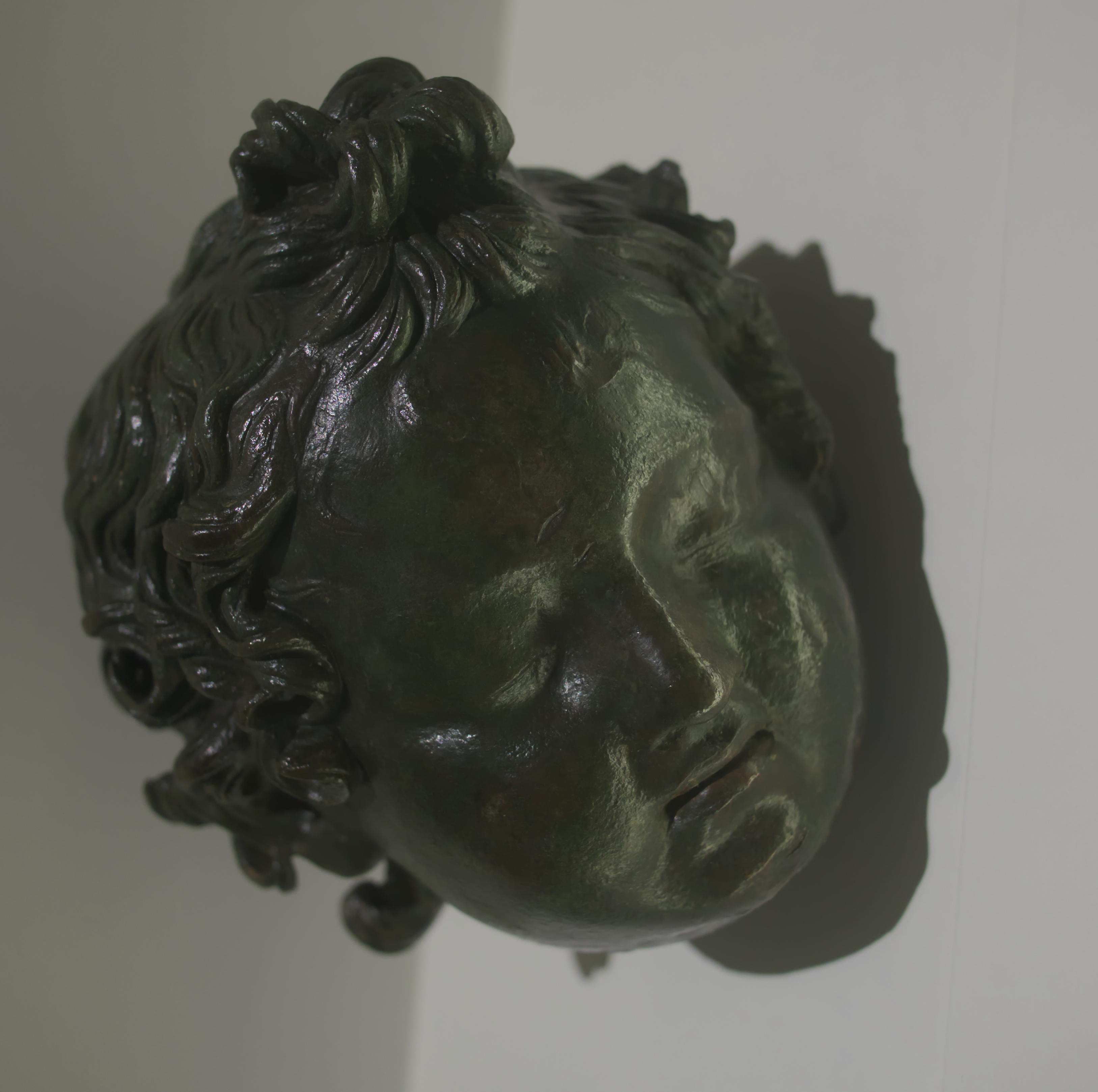 photograph taken during the temporary exposition that took place at the MuCEM of Marseille in august 2014.